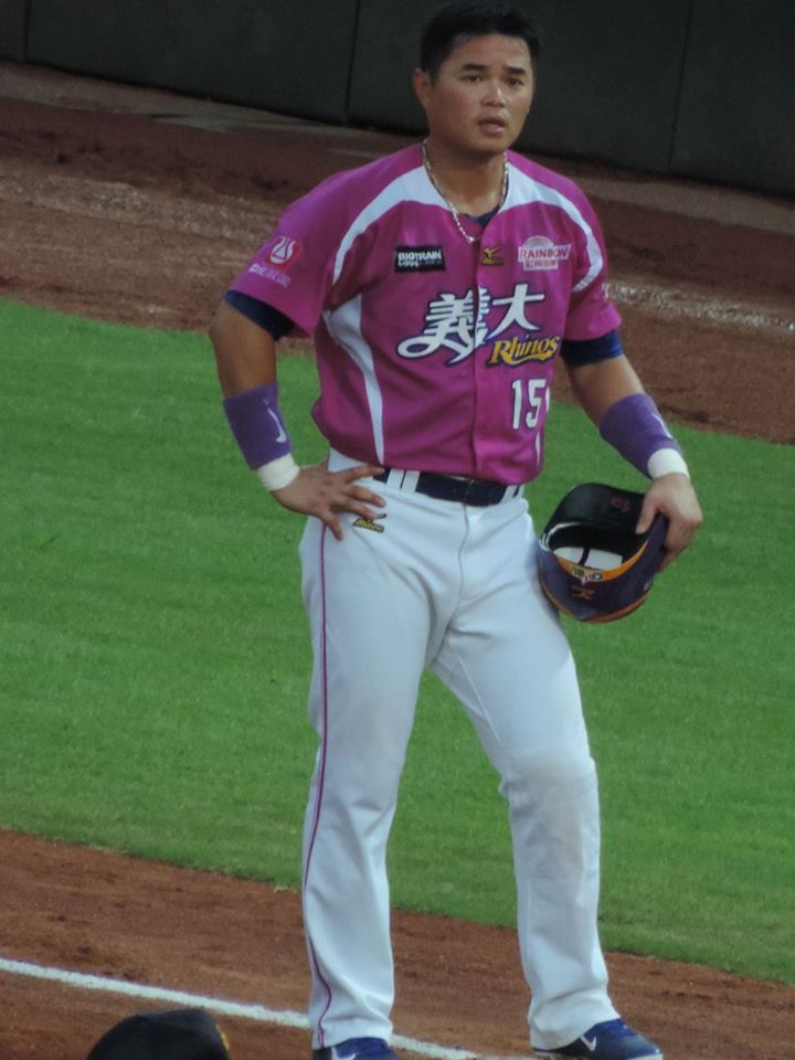 Chin-lung Hu at a baseball game of Taipei of Taiwan in August 18, 2013.